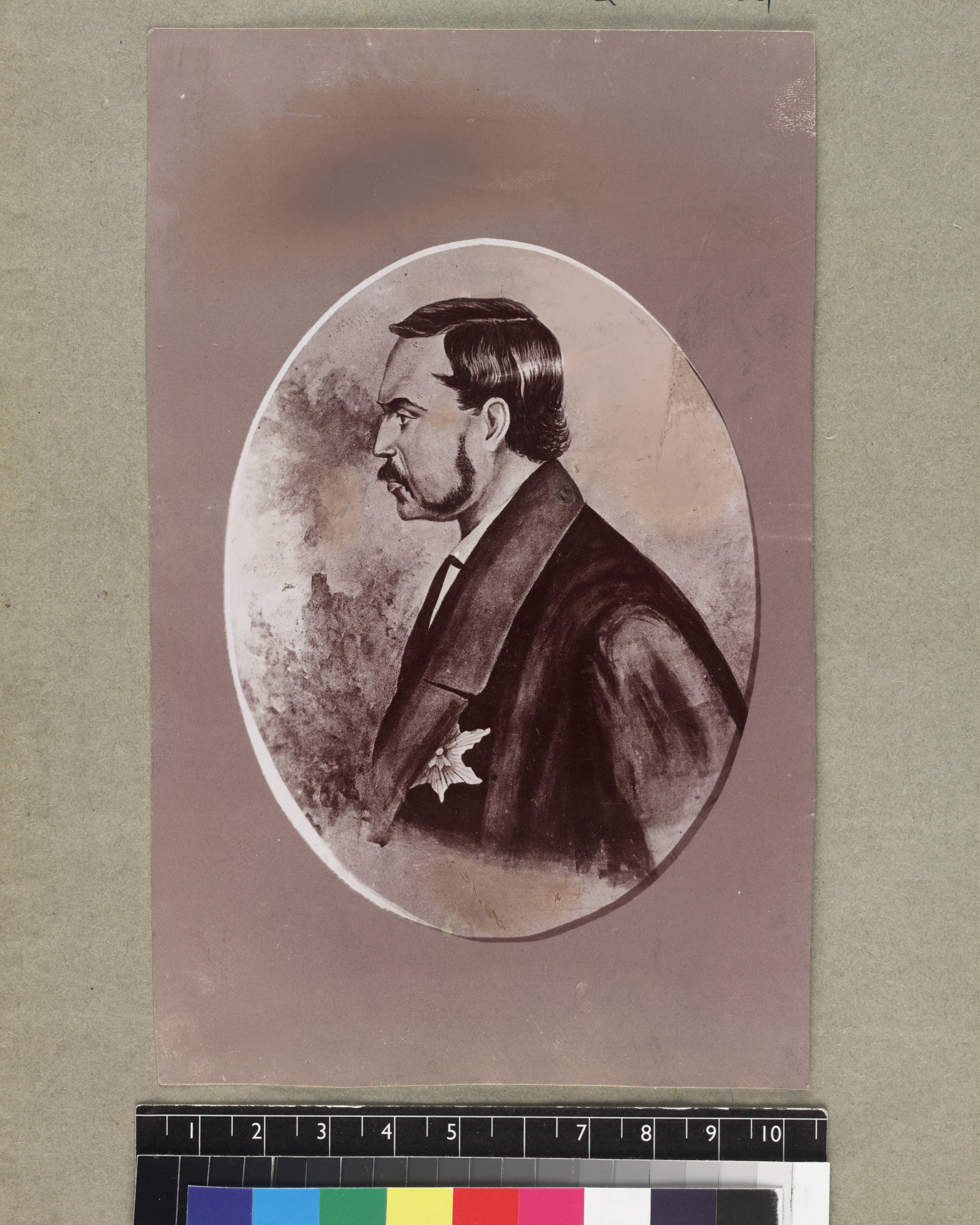 Photograph of a painted profile portrait of Radama II, King of Madagascar, 1961 - 1863. Chase Salmon Osborn (1860-1949) was the twenty-seventh governor of Michigan serving one term from 1911-12. He travelled widely and visited Madagascar between 1912 and 1914, publishing Madagascar, Land of the Man-eating tree in 1924. A number of the prints in this album are reproduced in this title. The album comprises prints, mainly printing-out paper, either taken by or collected by Osborn. The album is inscribed "This album was made by natives of Madagascar. The bark of the "Tati" was used for the cover".